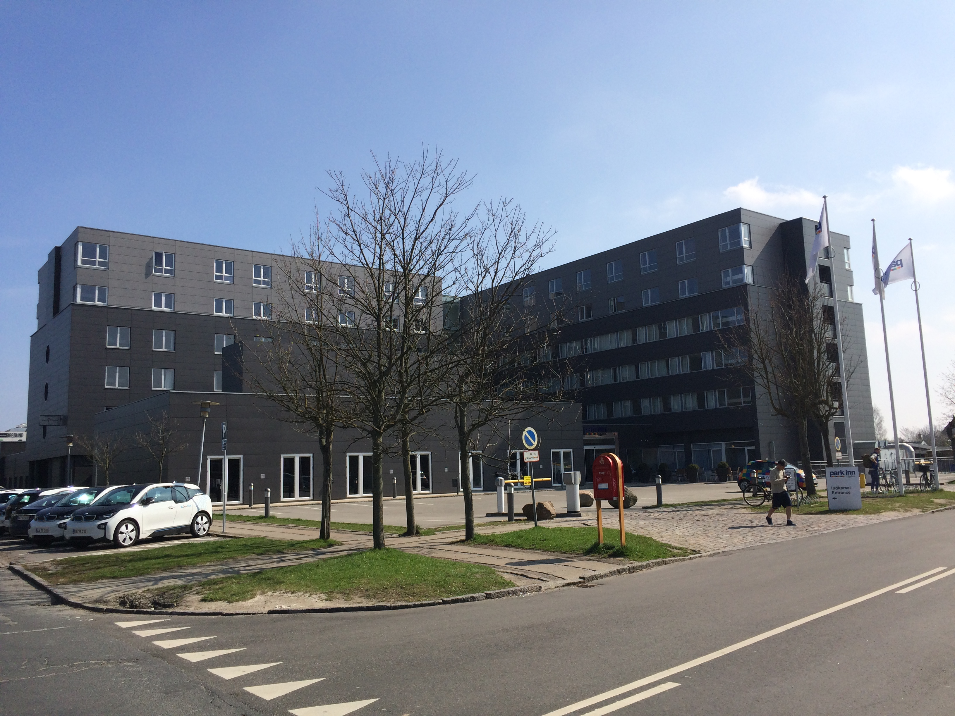 Park Inn Copenhagen Airport Hotel, Tårnby in 2017